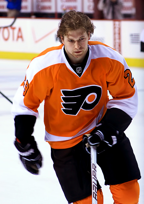 Claude Giroux, #28 of the Philadelphia Flyers, during pre-game warm-ups.